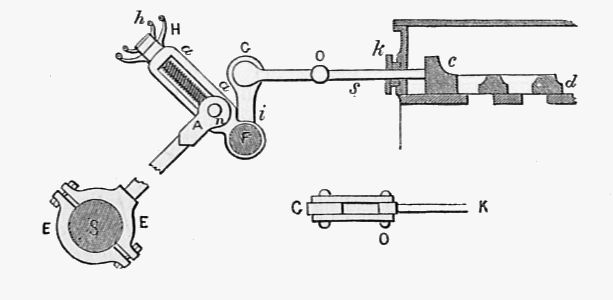 Working of Expansion Valve (Steam and the Steam Engine, Evers).jpg